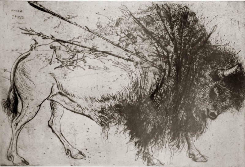 Requiem_for_a_Bison